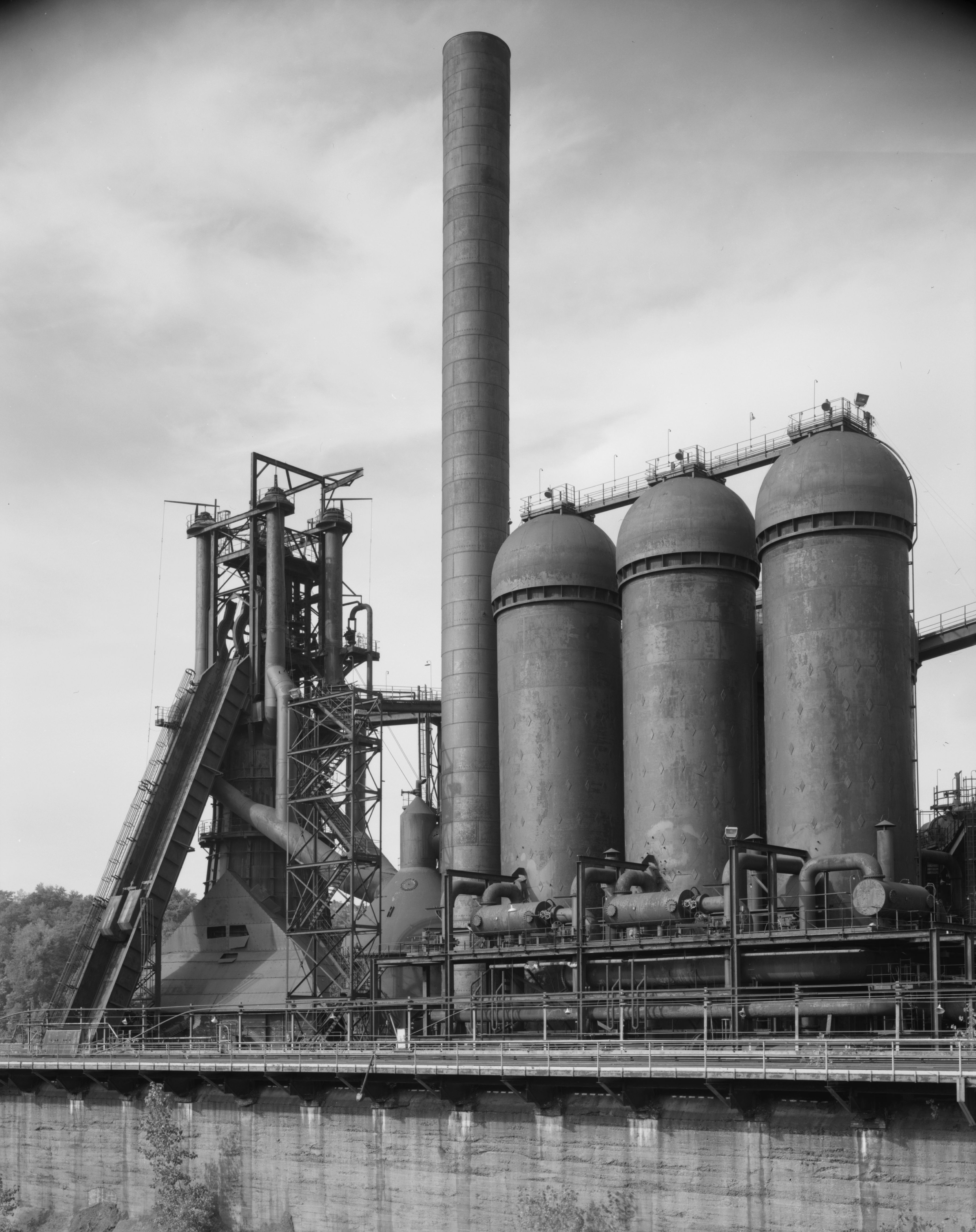 Carrie Furnace No. 7, U.S. Steel Homestead Works, Blast Furnace Plant, Along Monongahela River, Homestead (Allegheny County, Pennsylvania) (cropped)